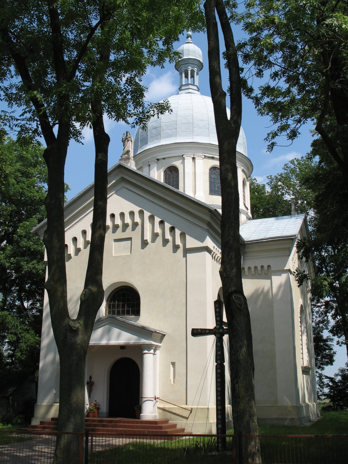 Szczepiatyn (Poland), former Greek Catholic church